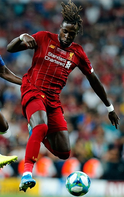 Liverpool vs. Chelsea, 2019 UEFA Super Cup